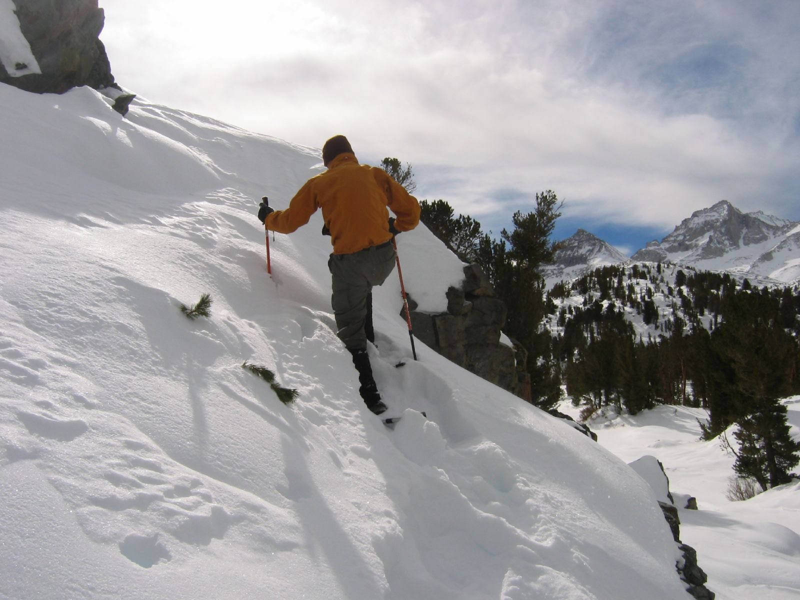 Mountaneering on Mount Morgan in the Sierra Nevada. Mono County, California, USA.climb up